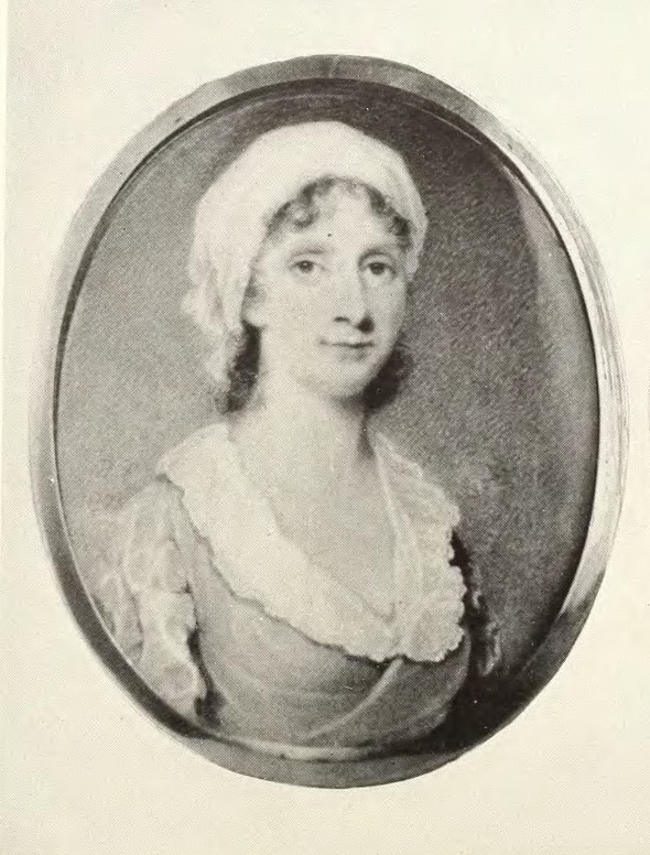 "Three hundred and twenty-five copies privately printed"--Colophon